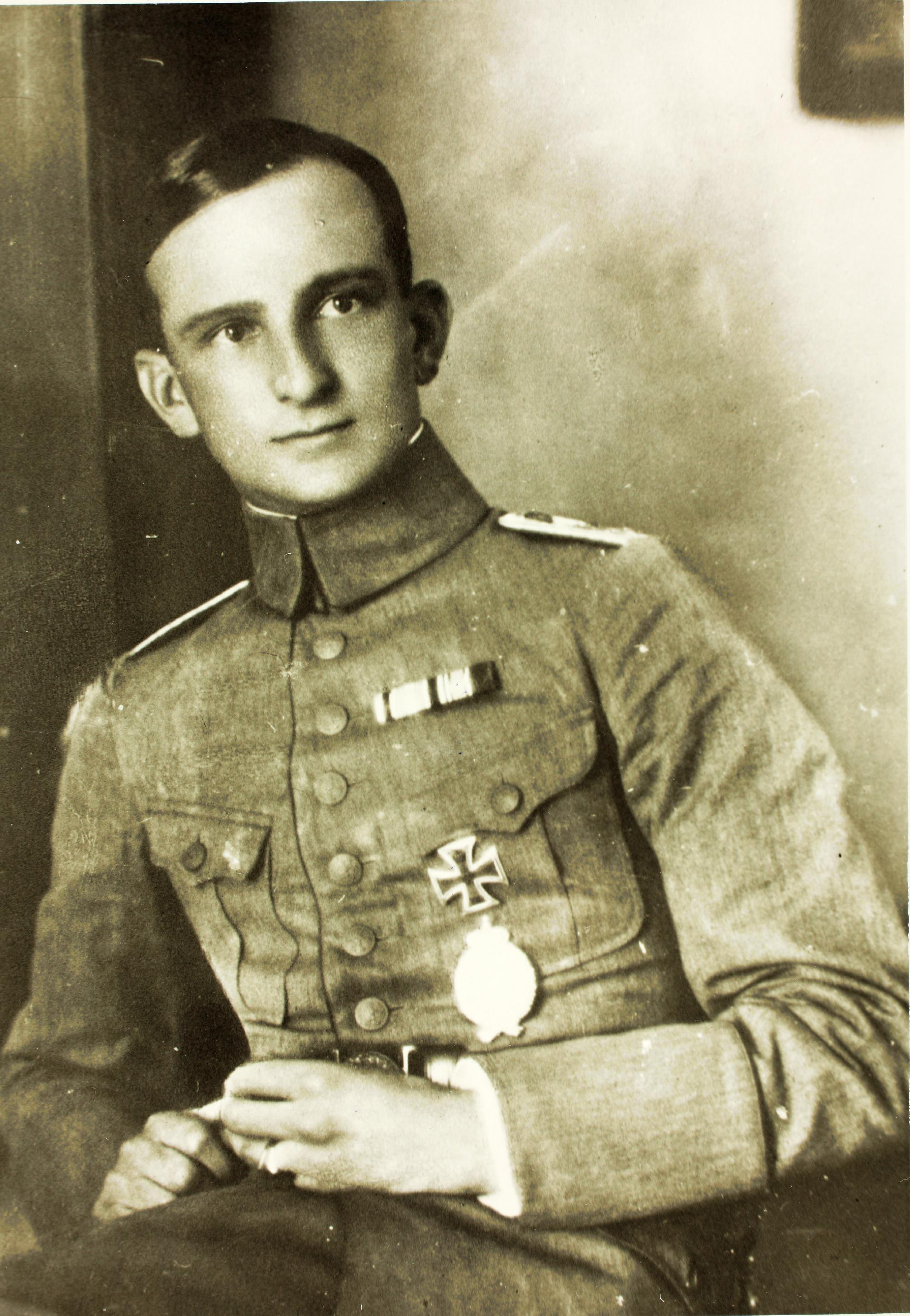 Catalog #: 10_0017299 Title: World War One German Aviator Obltn. Adolf von Tutschek Date: 1914-1918 Additional Information: World War One German Aviator Obltn. Adolf von Tutschek Tags: World War One German Aviator Obltn. Adolf von Tutschek , World War One German Aviator Obltn. Adolf von Tutschek , 1914-1918 Repository: San Diego Air and Space Museum Archive